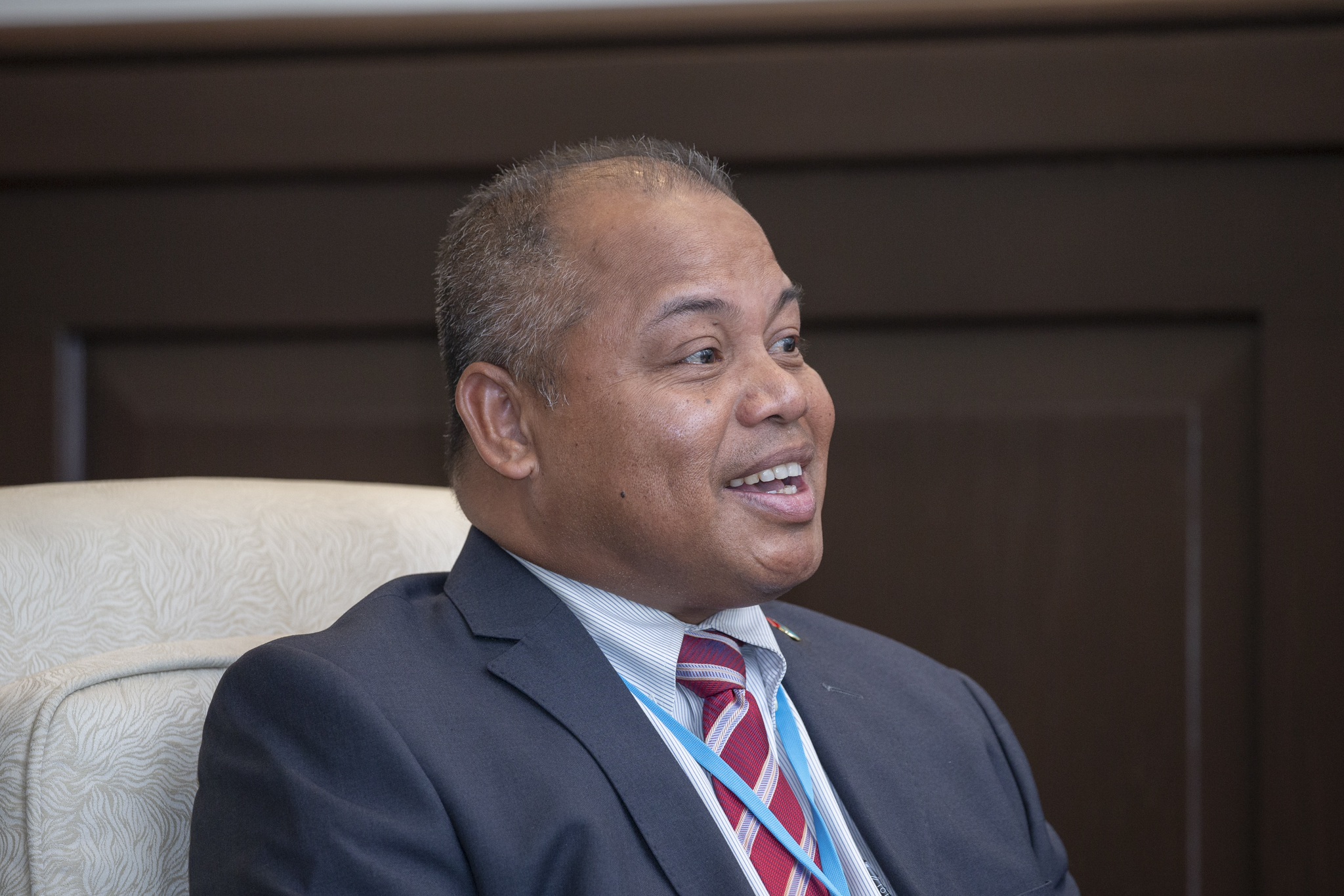 Raynold Oilouch, Vice President of the Republic of Palau.